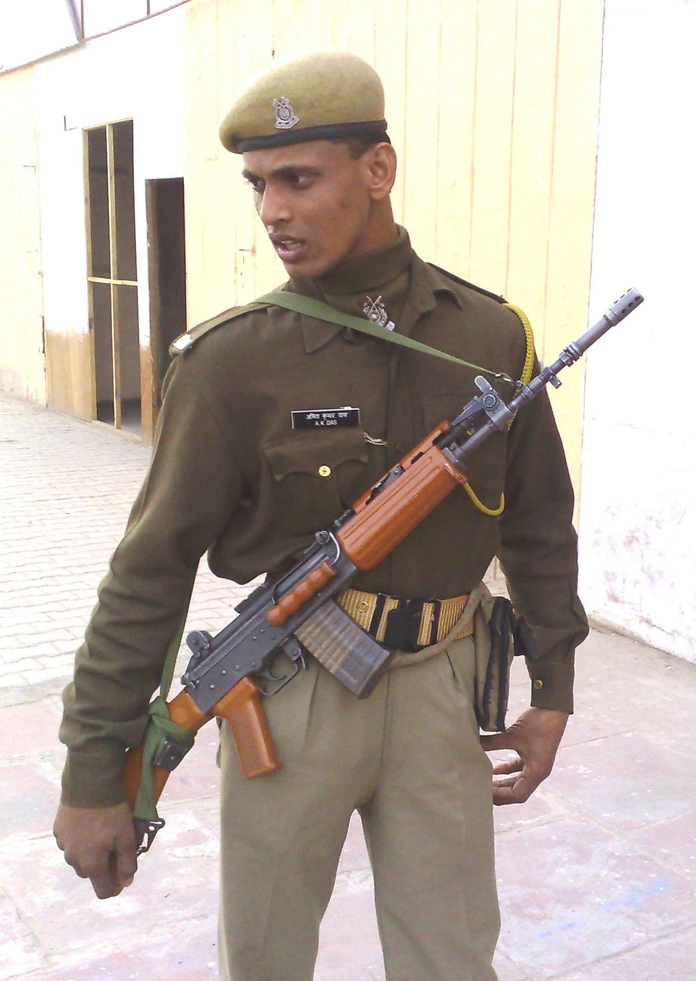 A Indian Paramilitary Soldier with regular INSAS